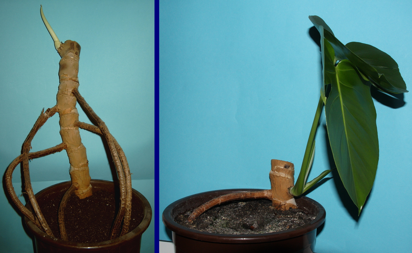 Monstera deliciosa (Windowleaf), stem cutting with 1. sprout (left) and 6. sprout (right) after cutting sprouts 1…5